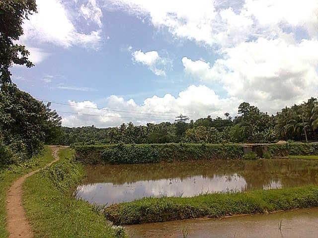 photos taken by jinesh device nokia x3